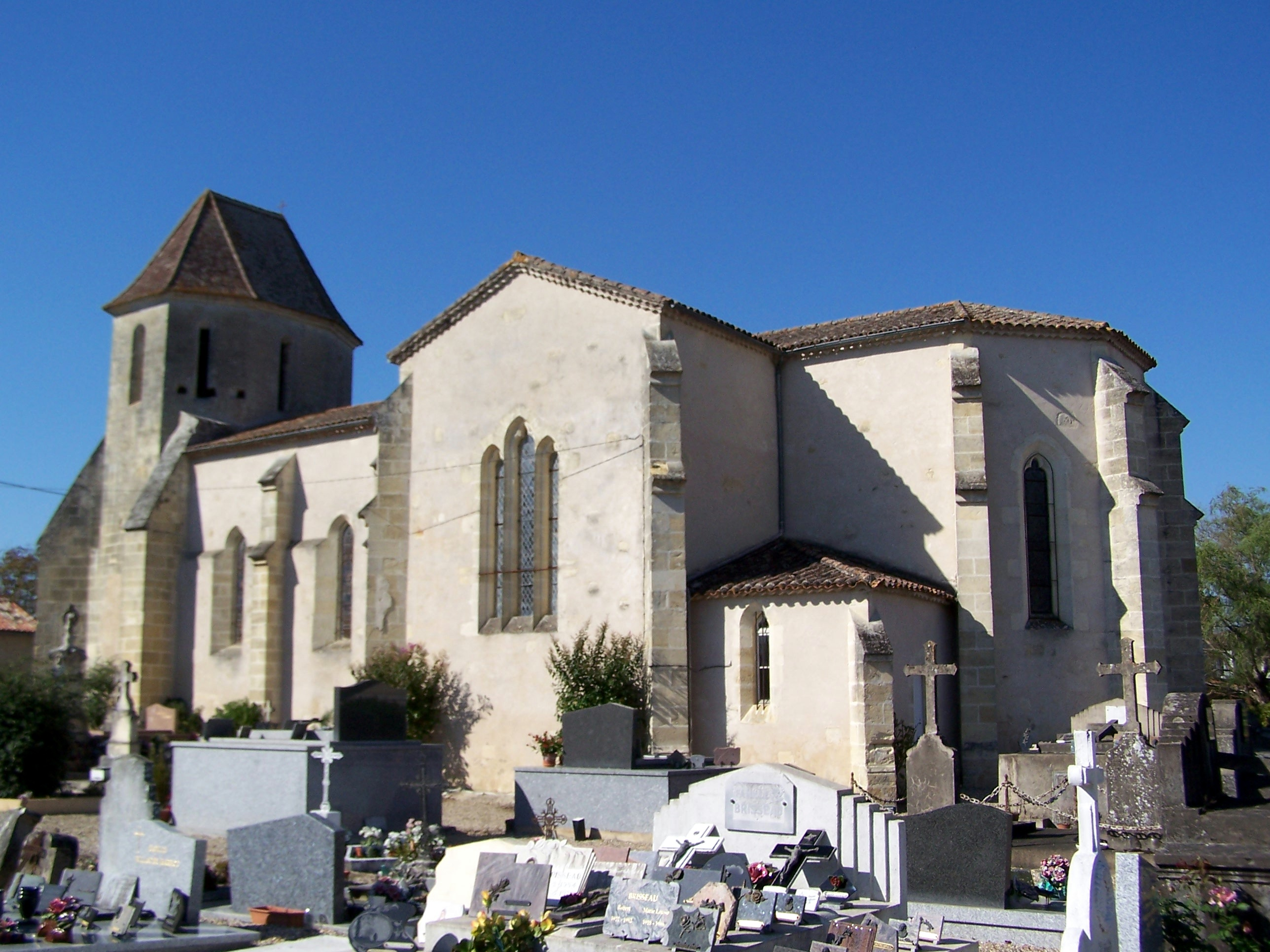 Church of Saint-Brice (Gironde, France)